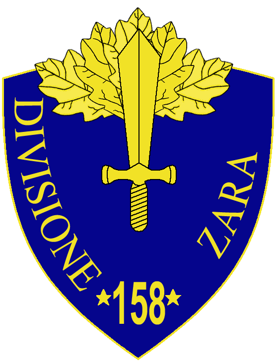 158a Divisione Fanteria Zara insignia, Regio Esercito, Italy, WWII